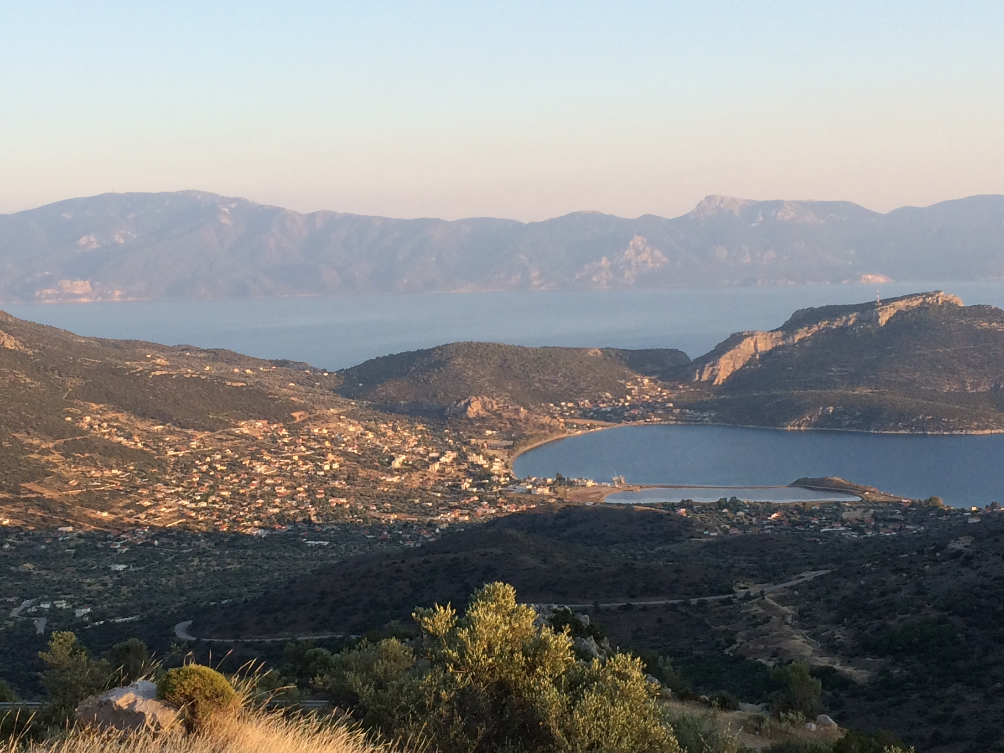 NOTE Alyki is not a municipality in Viotia (=Boeotia)